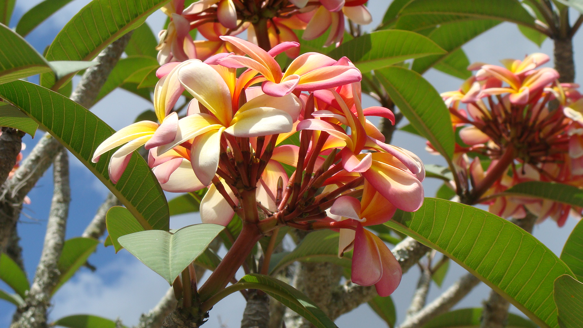 Flowers of Plumeria rubra.